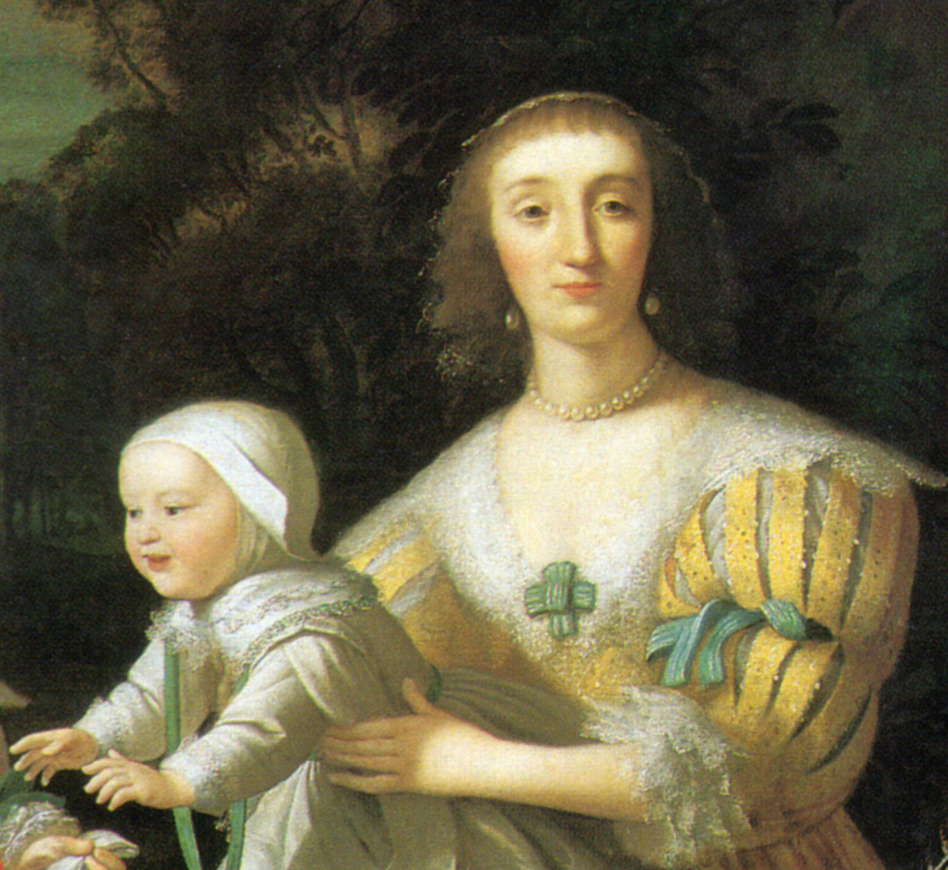 Katherine Manners, later Baroness de Roos and son George (later 2nd Duke of Buckingham}